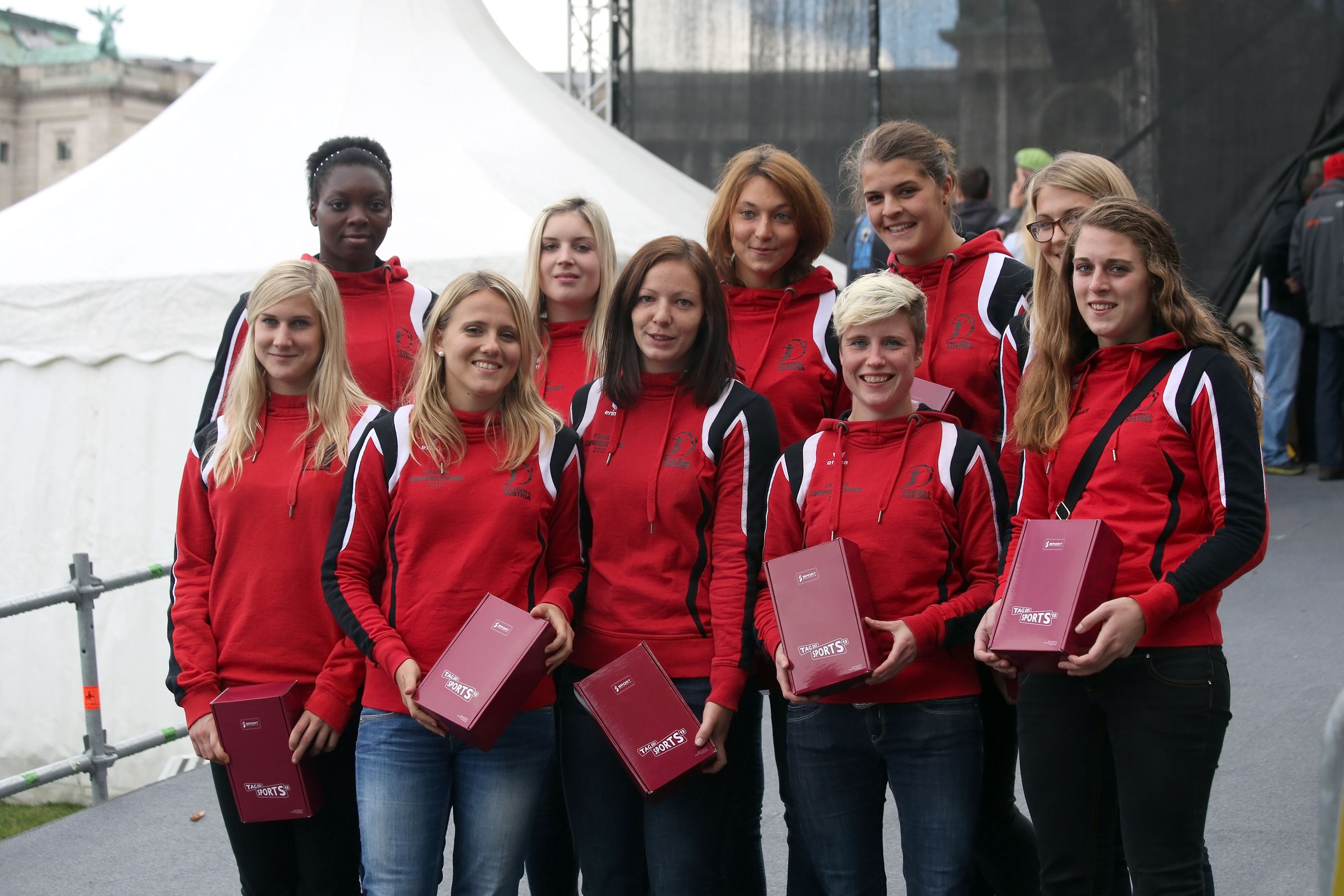 Austrian women's national fistball team, winners of the Fistball European Championships 2013, at the Tag des Sports (Day of Sports) 2013 on Heldenplatz in Vienna, Austria.